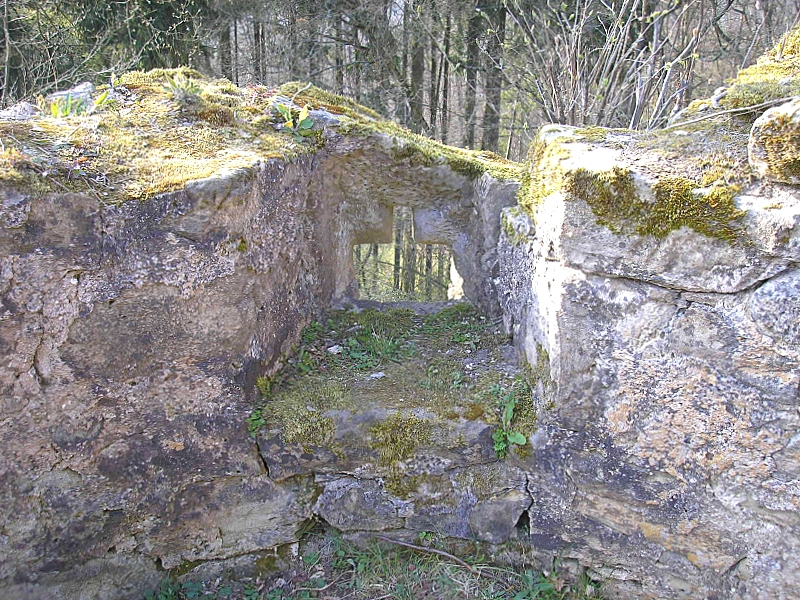 Raueneck (Rauheneck) castle near Ebern (Lower Franconia, Germany). Embrasure of the north western tower. Eigene Aufnahme/Own photo 2007-08-xx